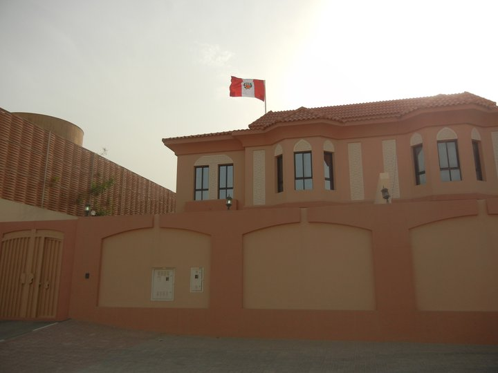 Embassy of Perú in Qatar